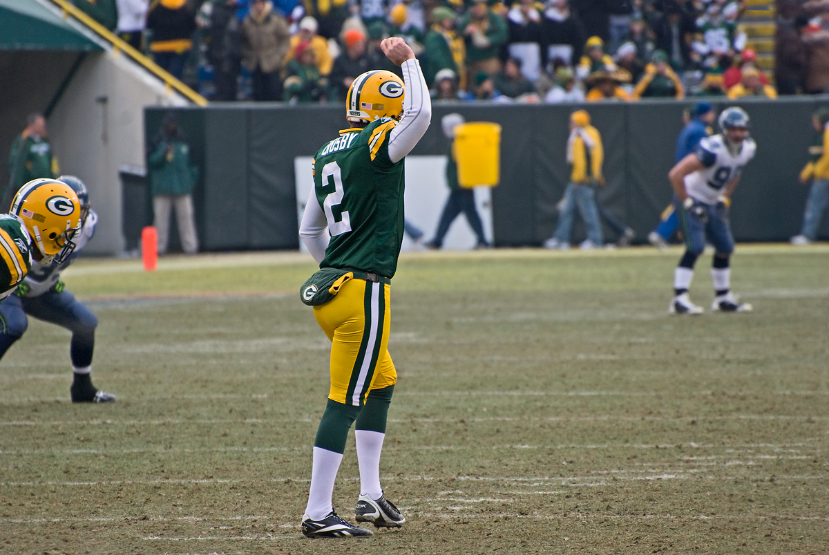 Seattle vs. Green Bay • December 27, 2009 at Lambeau Field in Green Bay, Wisconsin.